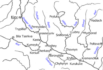 Territories of the wave of the Cossack and peasant uprisings against the Polish rule of Ukraine in early-17th century. Adapted from PD map[1] in Ivan Krypyakevych, "Istoriia ukrainskogo viyska", Repr. d. Ausg. L'viv 1936. Kiev: Pamyatky Ukraini. 1992. 568, VIII S.. ISBN 5-7770-040 If such trivial adaptation does not generate a new copyright, this is PD as well. If a new copyright is needed than